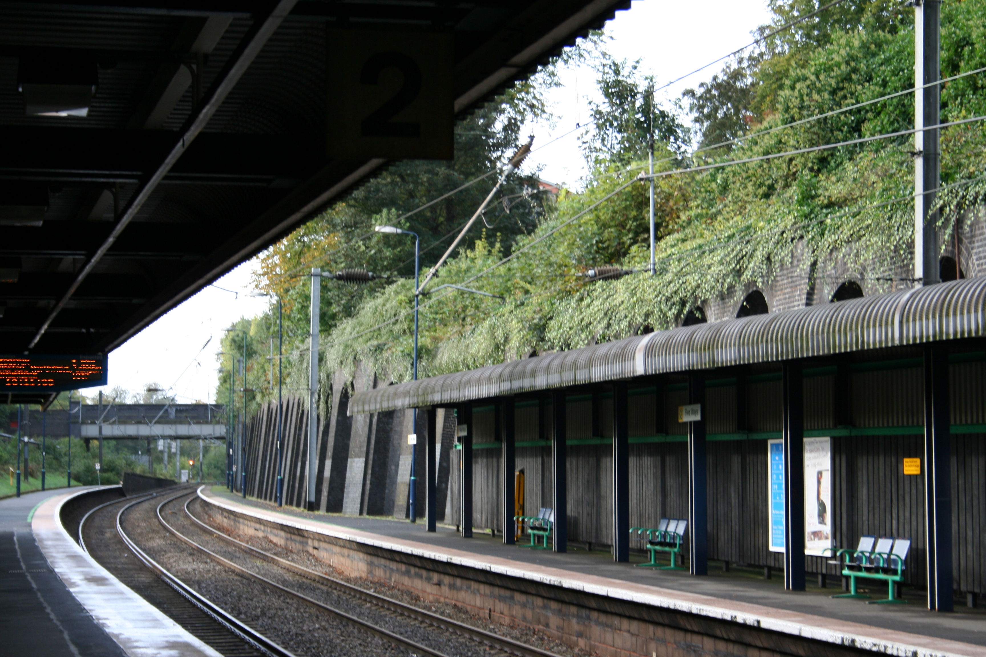 Five Ways railway station, Birmingham. This photo is licensed under a Creative Commons license. If you use this photo, please list the photo credit as "Daniel Morris" and link the credit to .